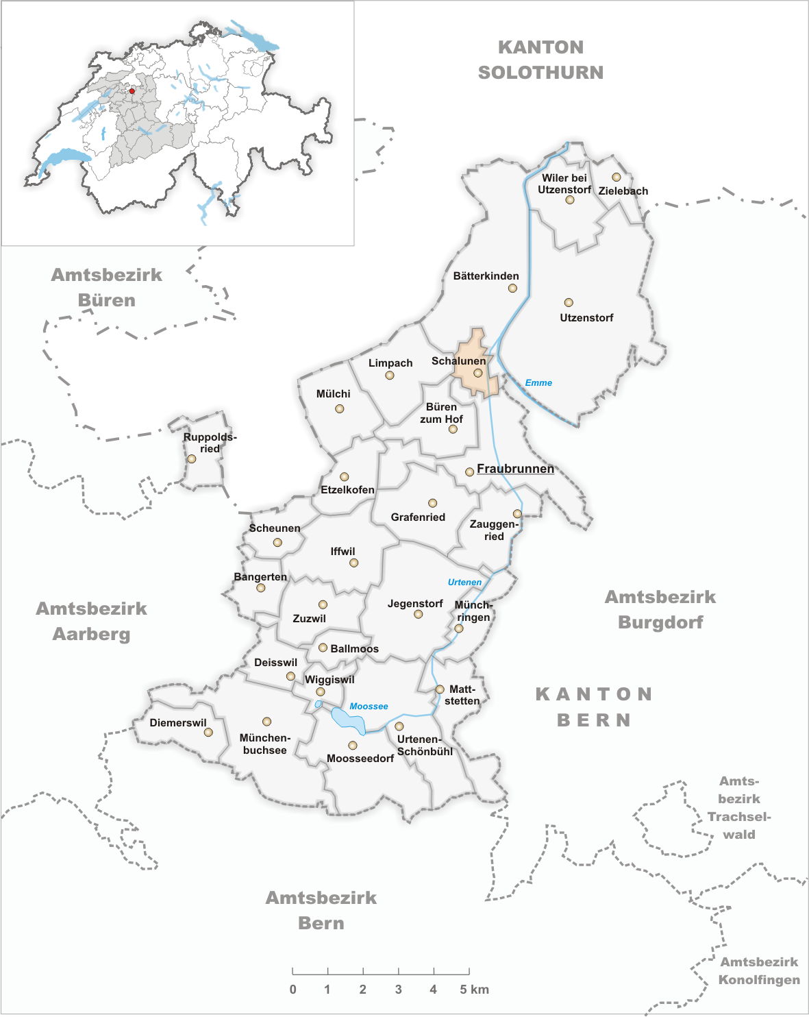 Municipality Schalunen